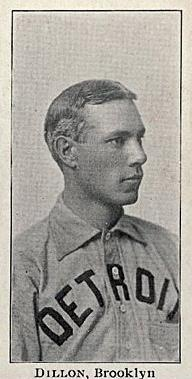 1903 Breisch-Williams baseball card of Pop Dillon.